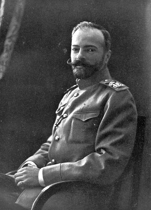 Grand Duke Alexander Mikhailovich of Russia.